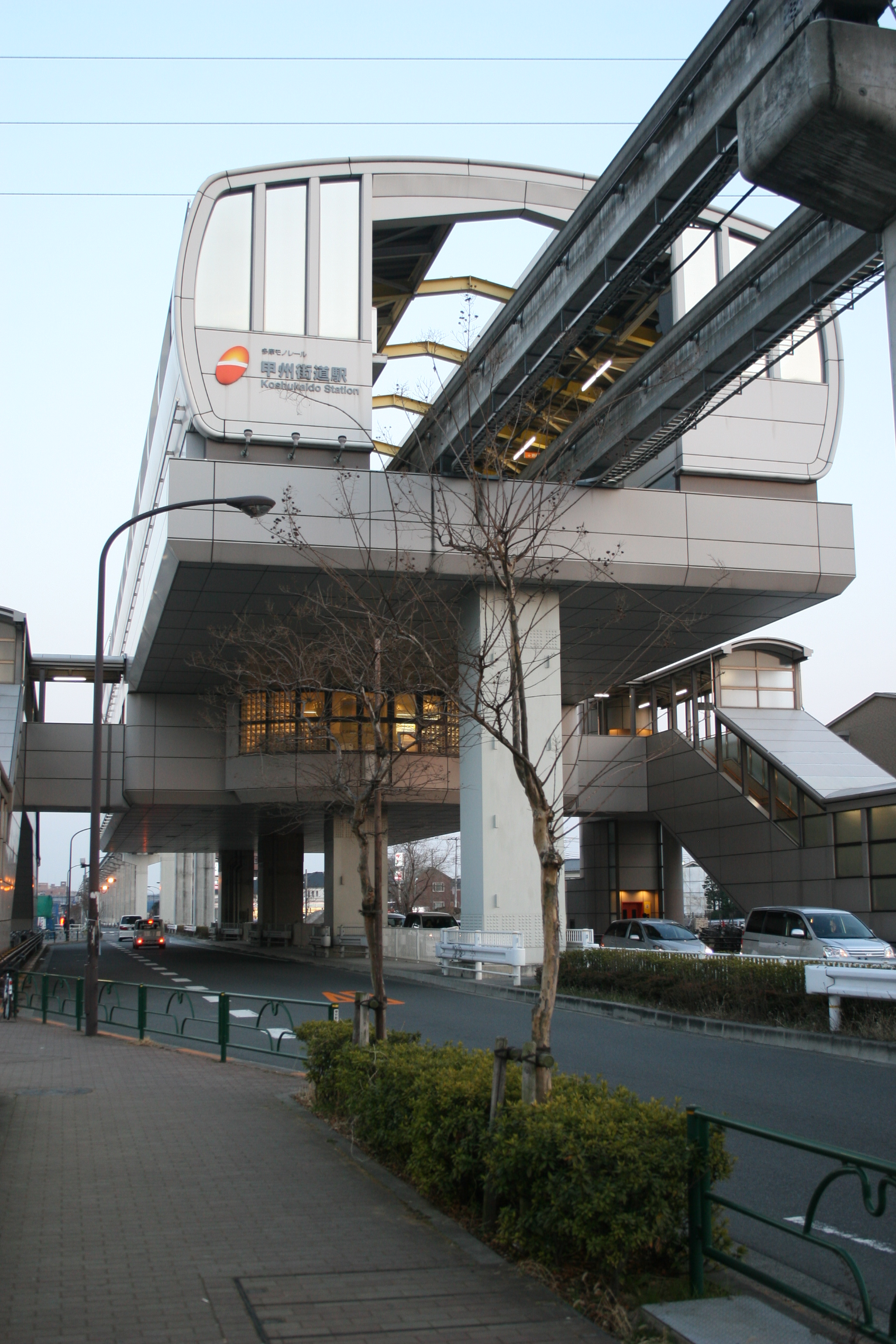 Koshukaido Station, a monorail station in Hino, Tokyo